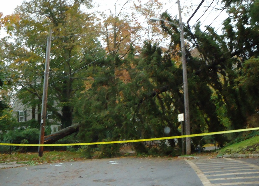 Aftermath of Hurricane Sandy in Summit, New Jersey. Tree blocking street.